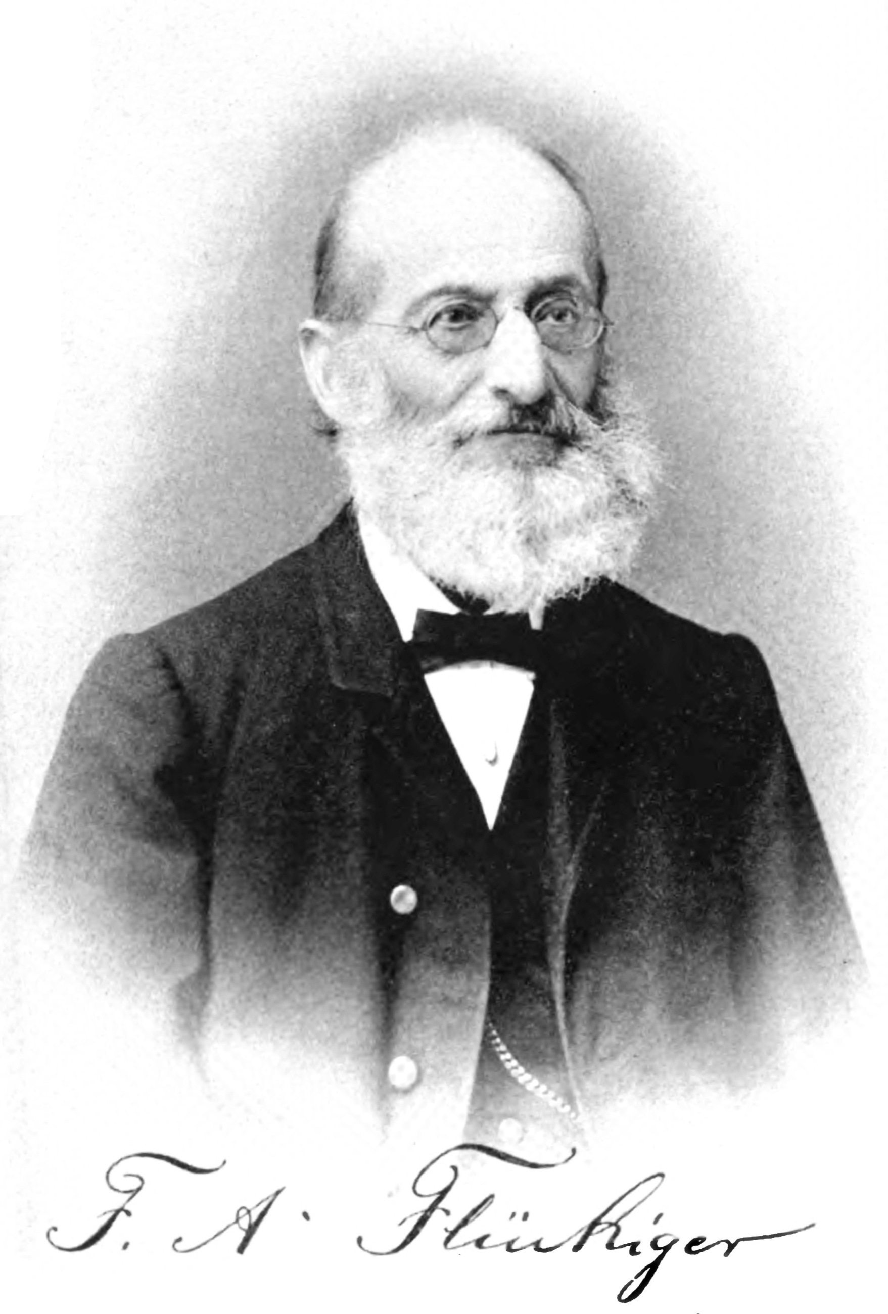 Friedrich August Flueckiger. In: Reactions: A selection of organic chemical preparations important to pharmacy in regard to their behavior to commonly used reagents. G. S. Davis, 1893